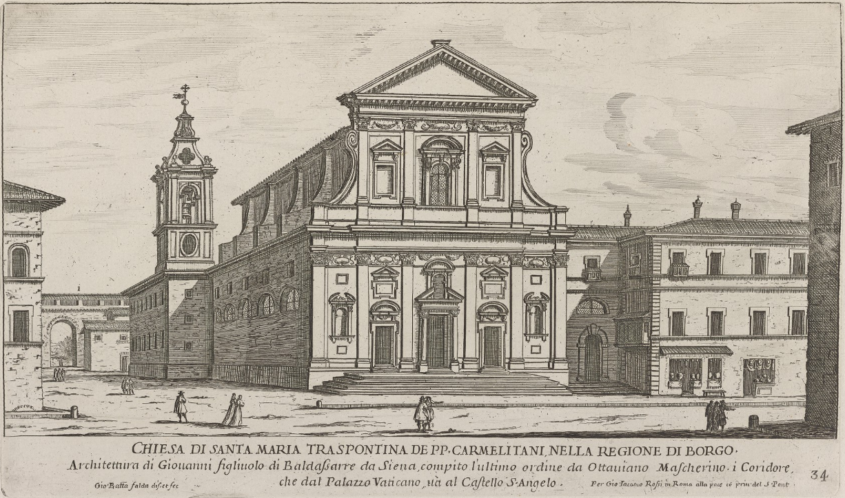 View of the Church of Santa Maria in Traspontina